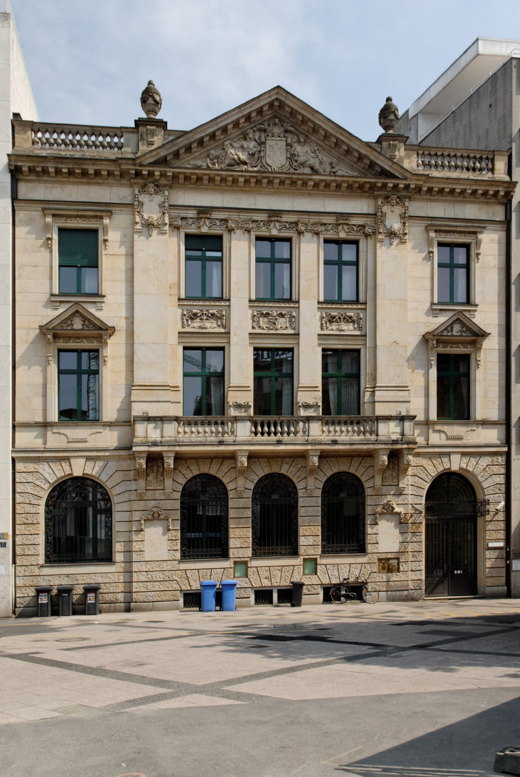 Building Schadowplatz 14 in Düsseldorf-Stadtmitte, Germany This is a photograph of an architectural monument.